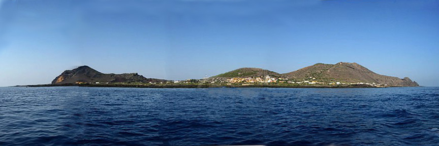 Isle of Linosa, Pelagie Islands, Sicily, Italy